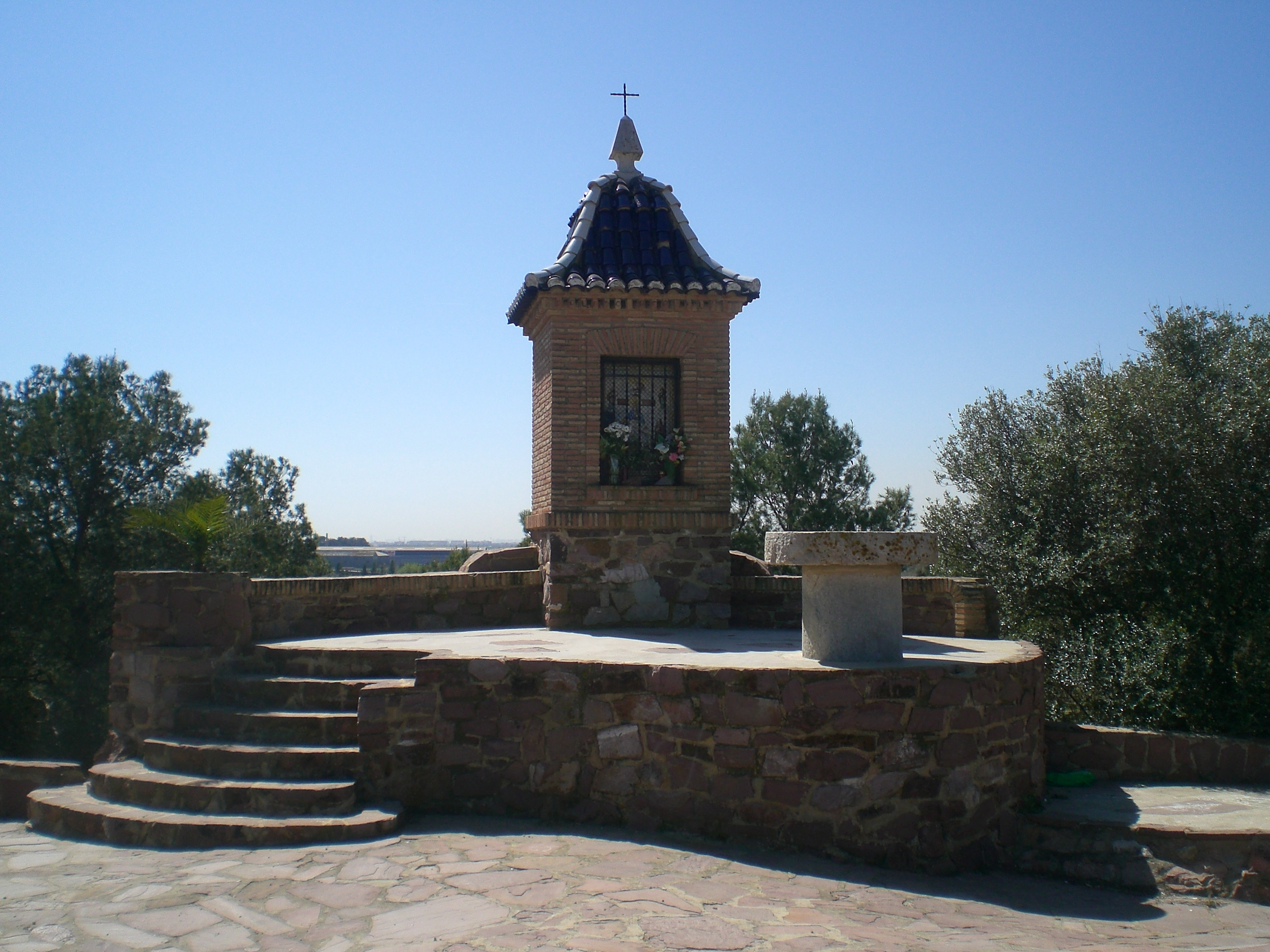 Shrine of the Virgin at the montaña de Cabeçol